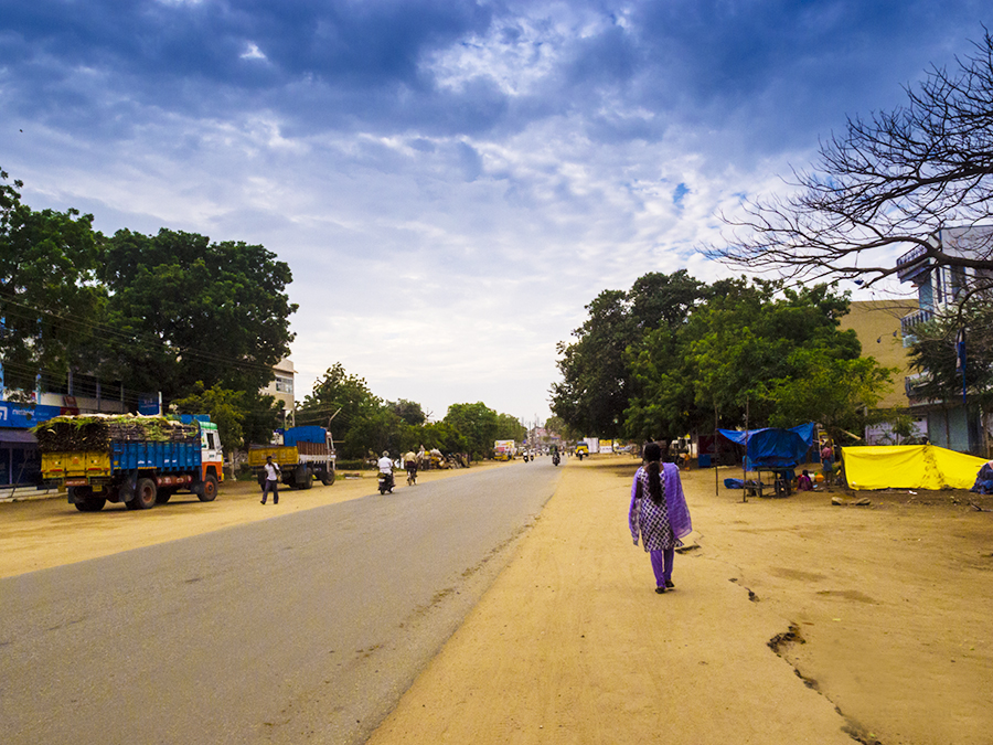 Vallioor Road - Chitra theater to Bus Stand (New)